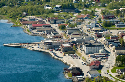 This is a picture of Fauske city taken from air plane.